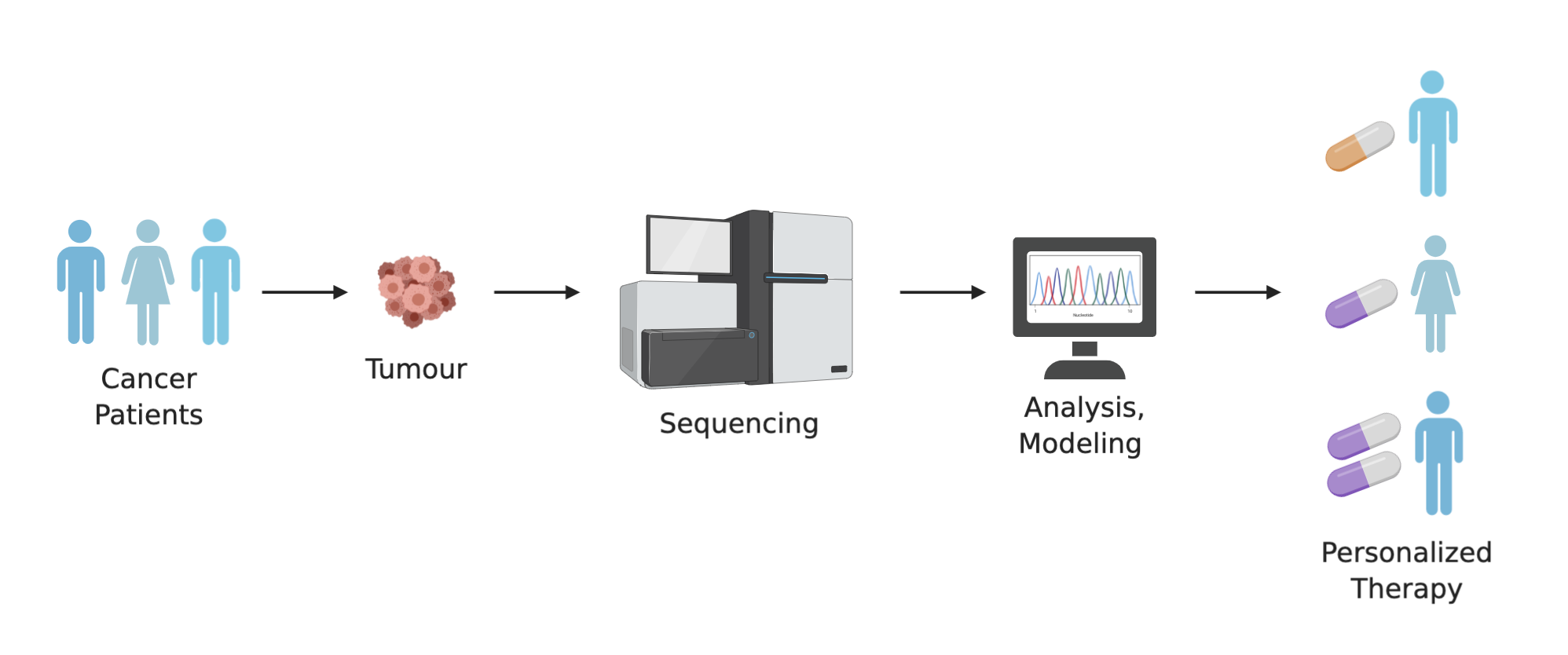 Genome sequencing can allow for personalization of cancer therapies for different patients.